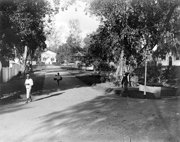 Street view with a protestant church and the entrance of a mosque, Tanjung Pinang